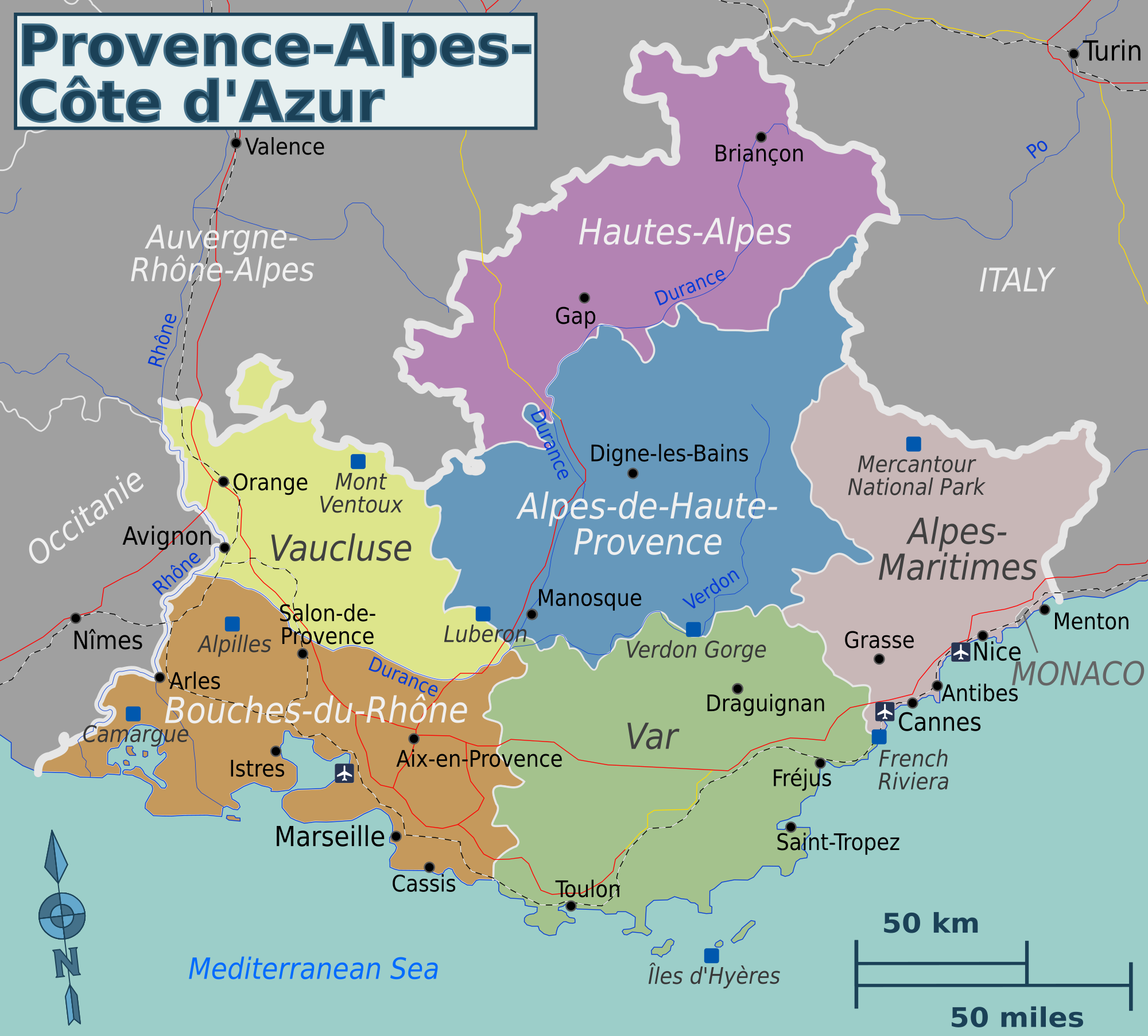 Map of Provence-Alpes-Côte d'Azur showing Wikivoyage travel regions, main cities and transportation features, after the 2016 reorganization of France regions. Update to Provence-map.png to reflect new French region names and changes to text font colour to improve readability.